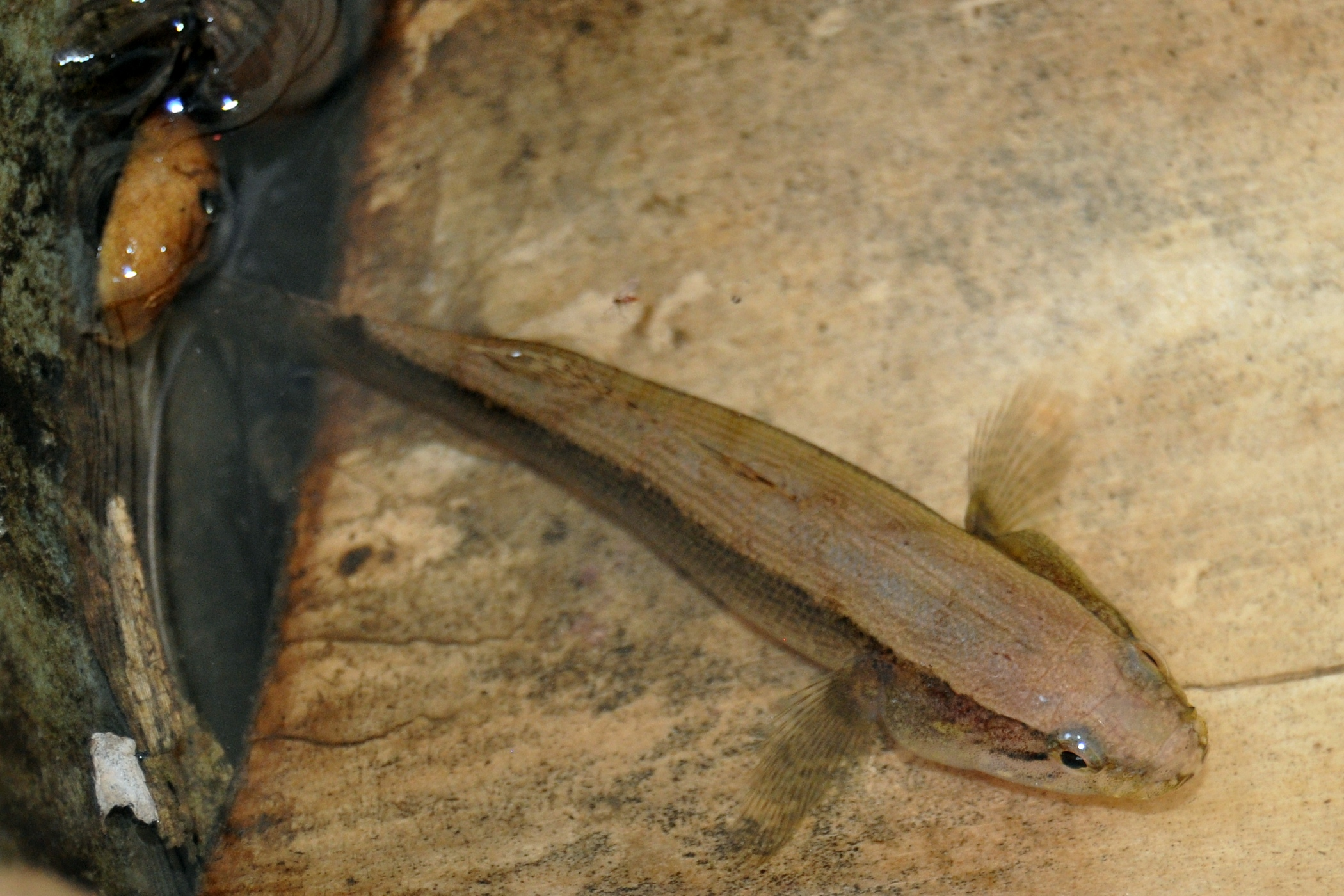 Dusky sleeper, Eleotris fusca. From Banyumas, Central Java, Indonesia.